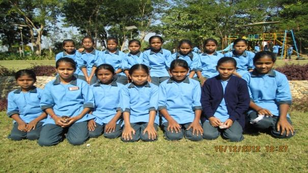 Students of EMRS school